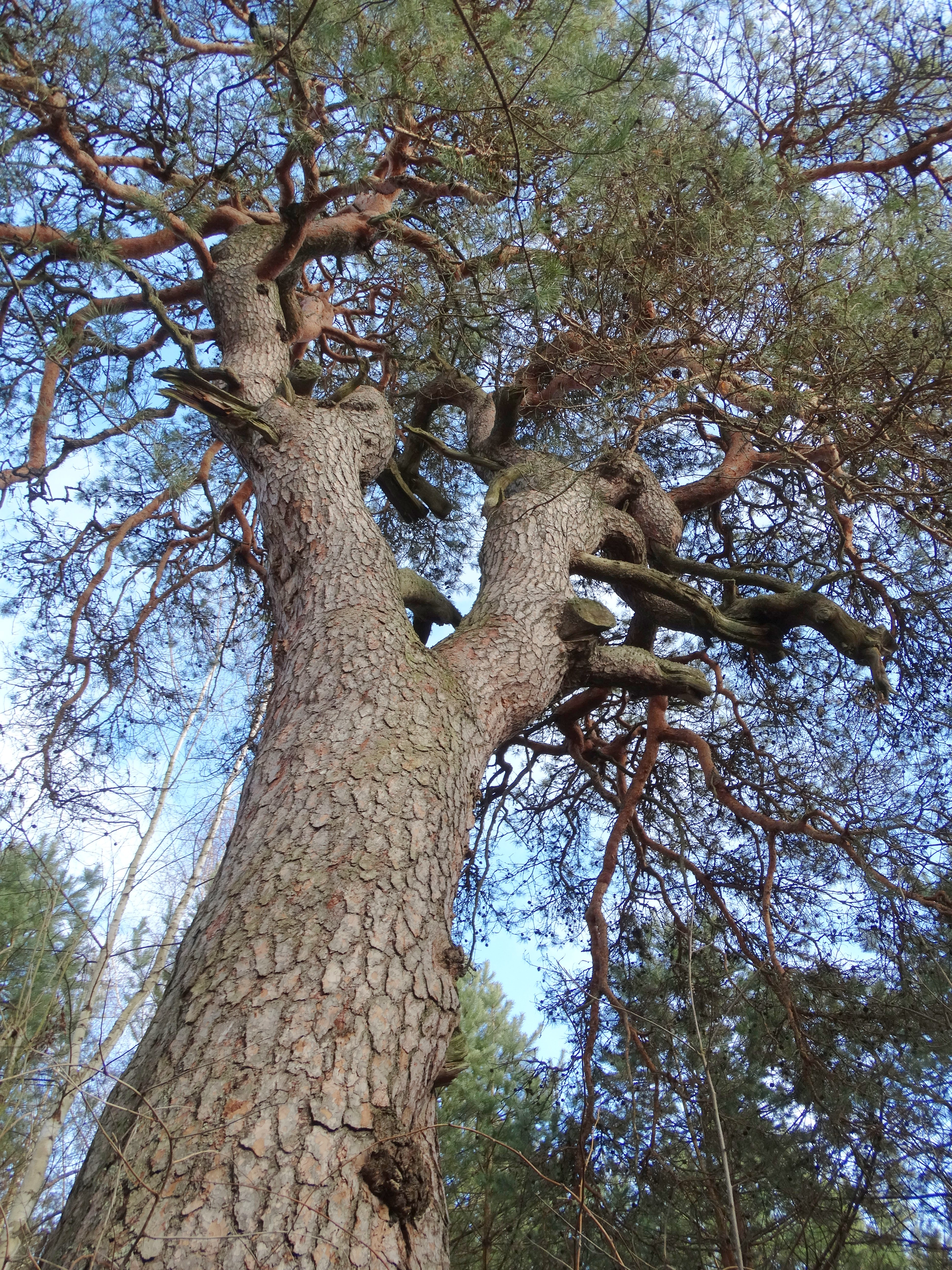 Pine tree, Pažemys, Zarasai district, Lithuania